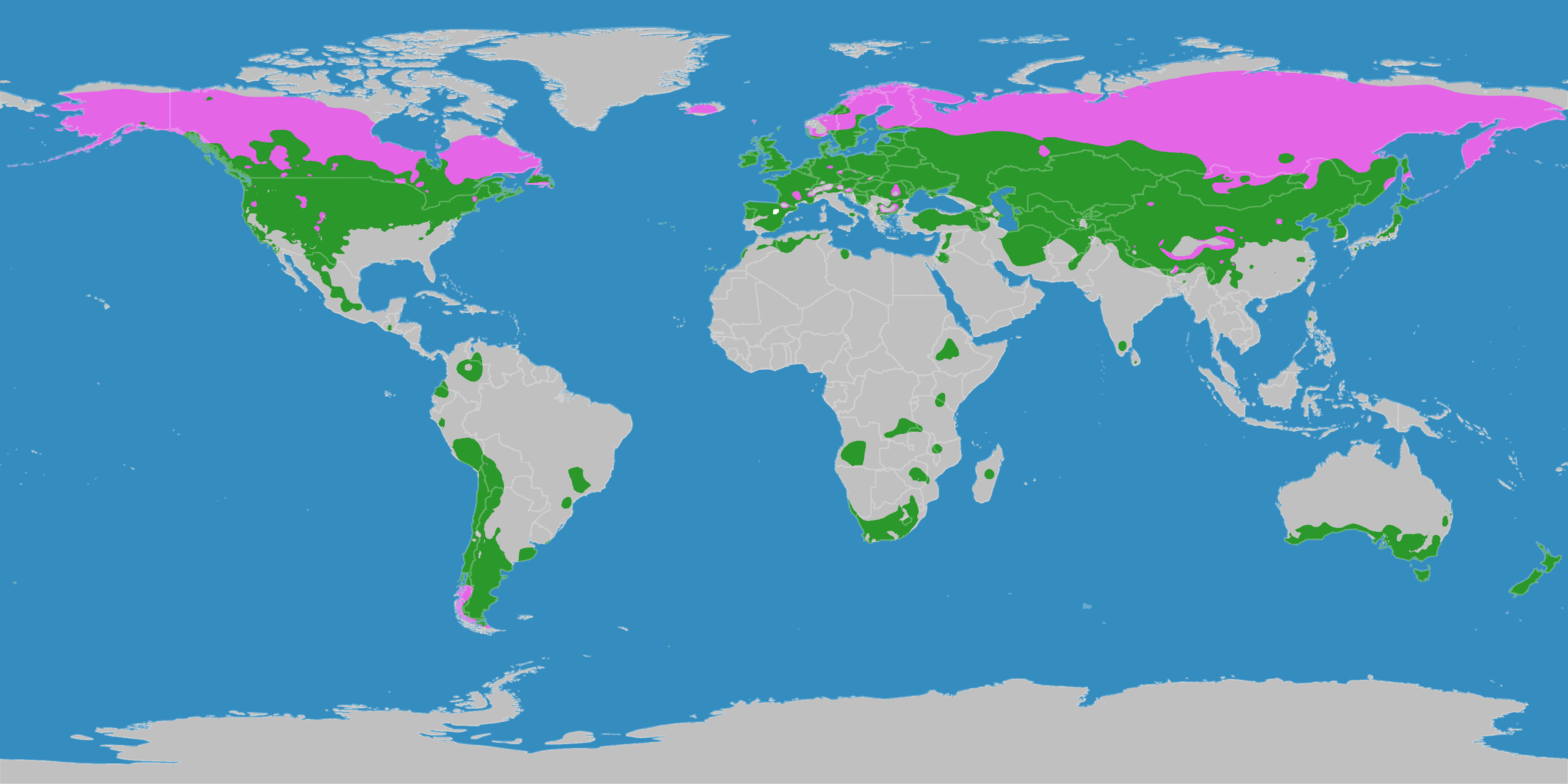 This map shows the Earth zones with a temperate climate. Cold temperate (boreal) climate Warm temperate climate